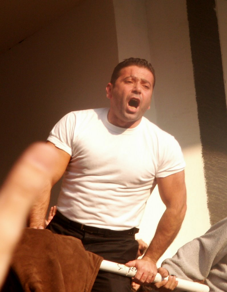 A photo of Alen Markaryan from a Besiktas match.